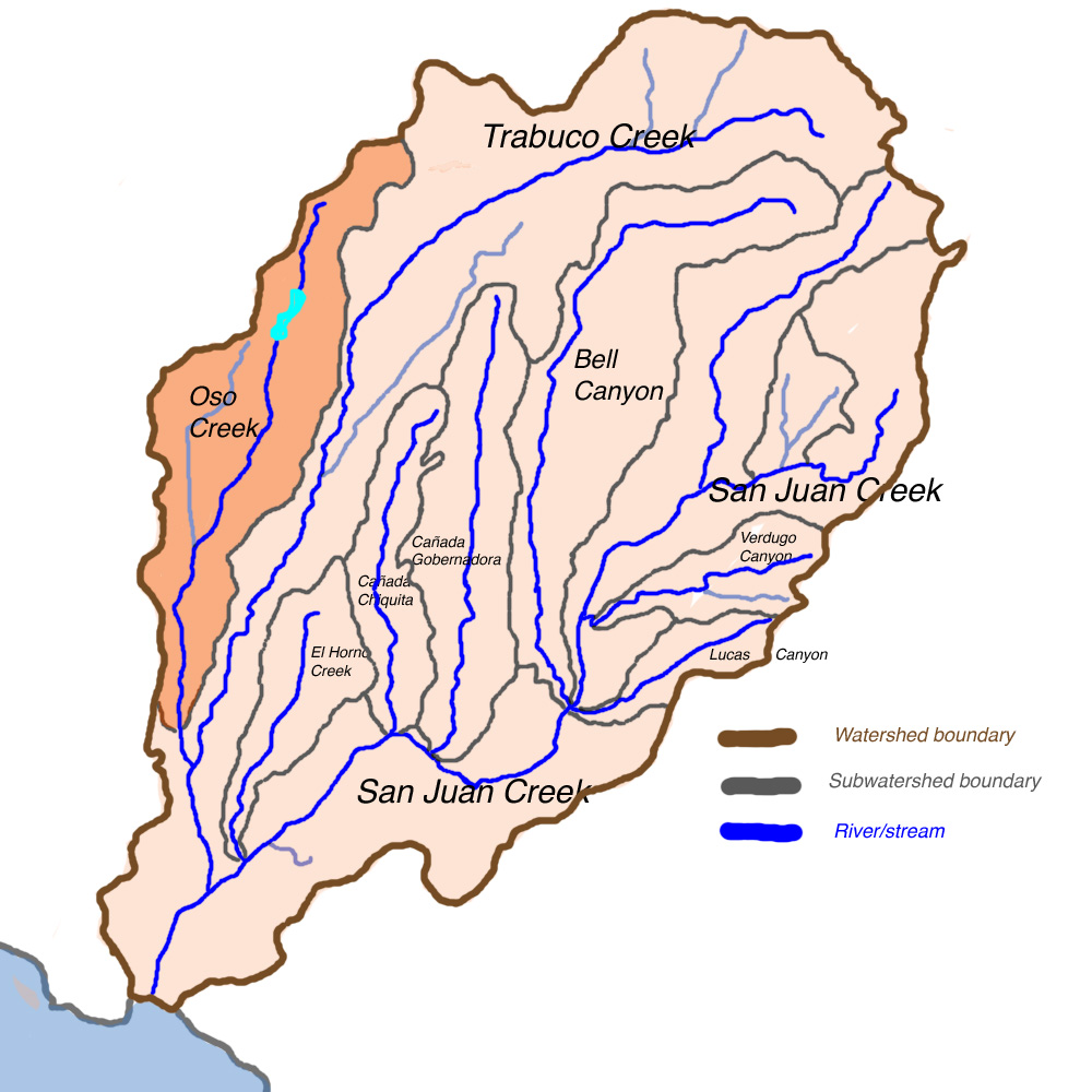 Map of the Oso Creek sub-basin's location in the San Juan Creek watershed, California